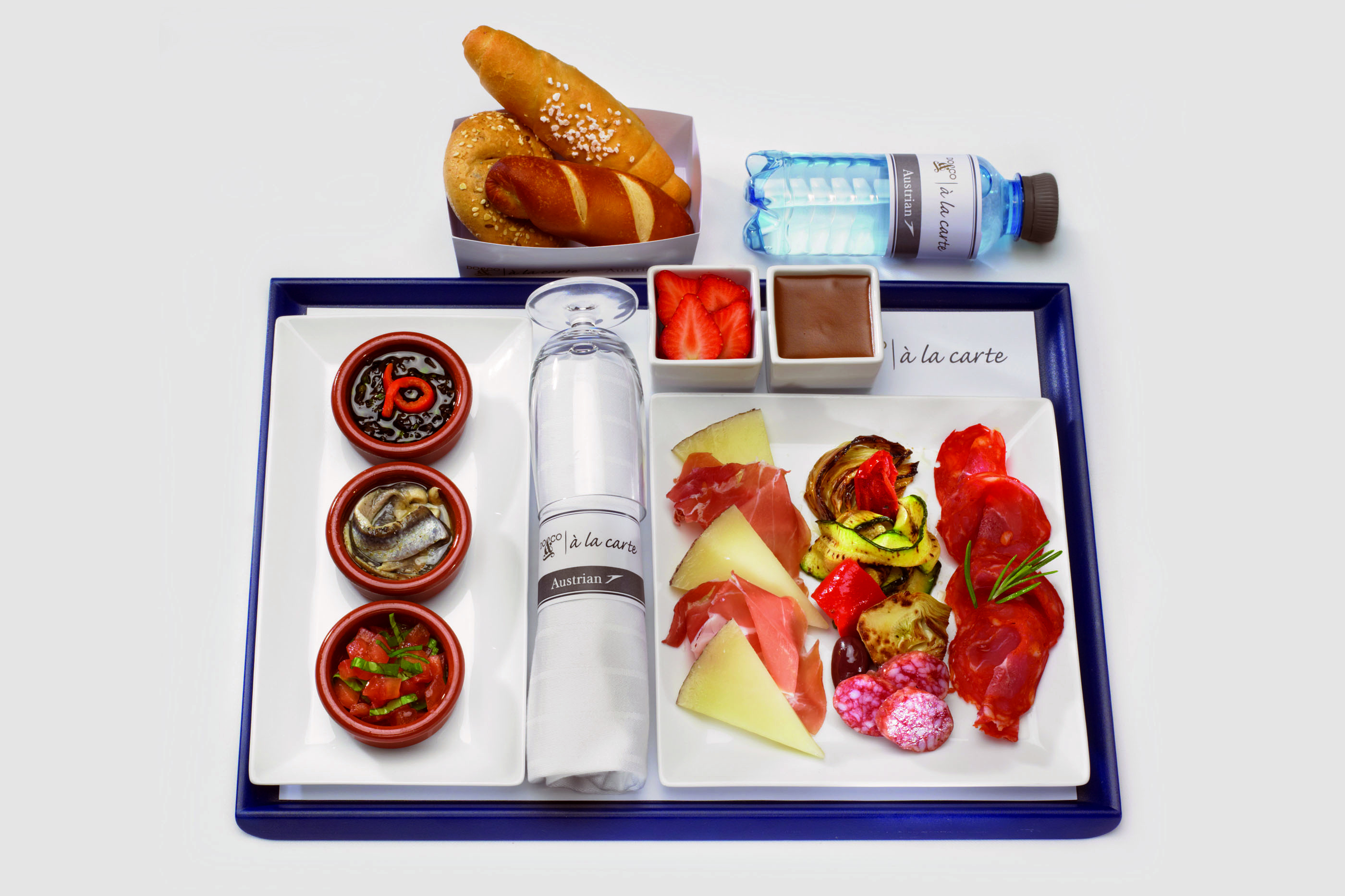 A deluxe meal available in Austrian Airlines' economy class for an extra fee, payable in advance. Food shown: boquerones, olive tapenade, sun-ripened tomatoes and fresh basil in olive oil, jamon, manchego, fuet, chorizo​​, grilled vegetables, chocolate mousse, fresh strawberries, and freshly baked bread basket.